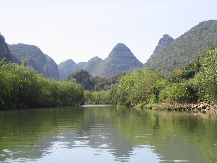 Canal near the Dragon Palace Cavern, Anshun, China.